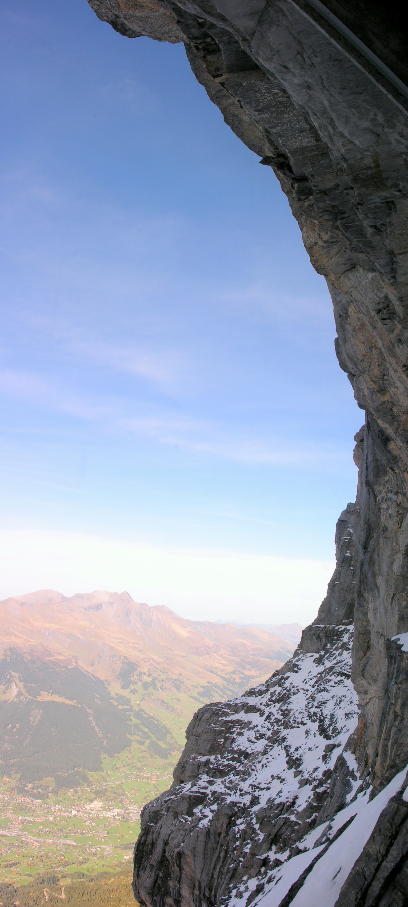 View from Eiger North Face